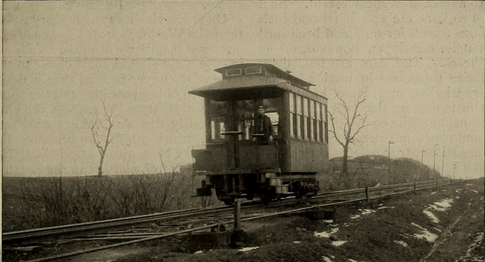 On Castle Shannon Plane No. 2, Pittsburgh.